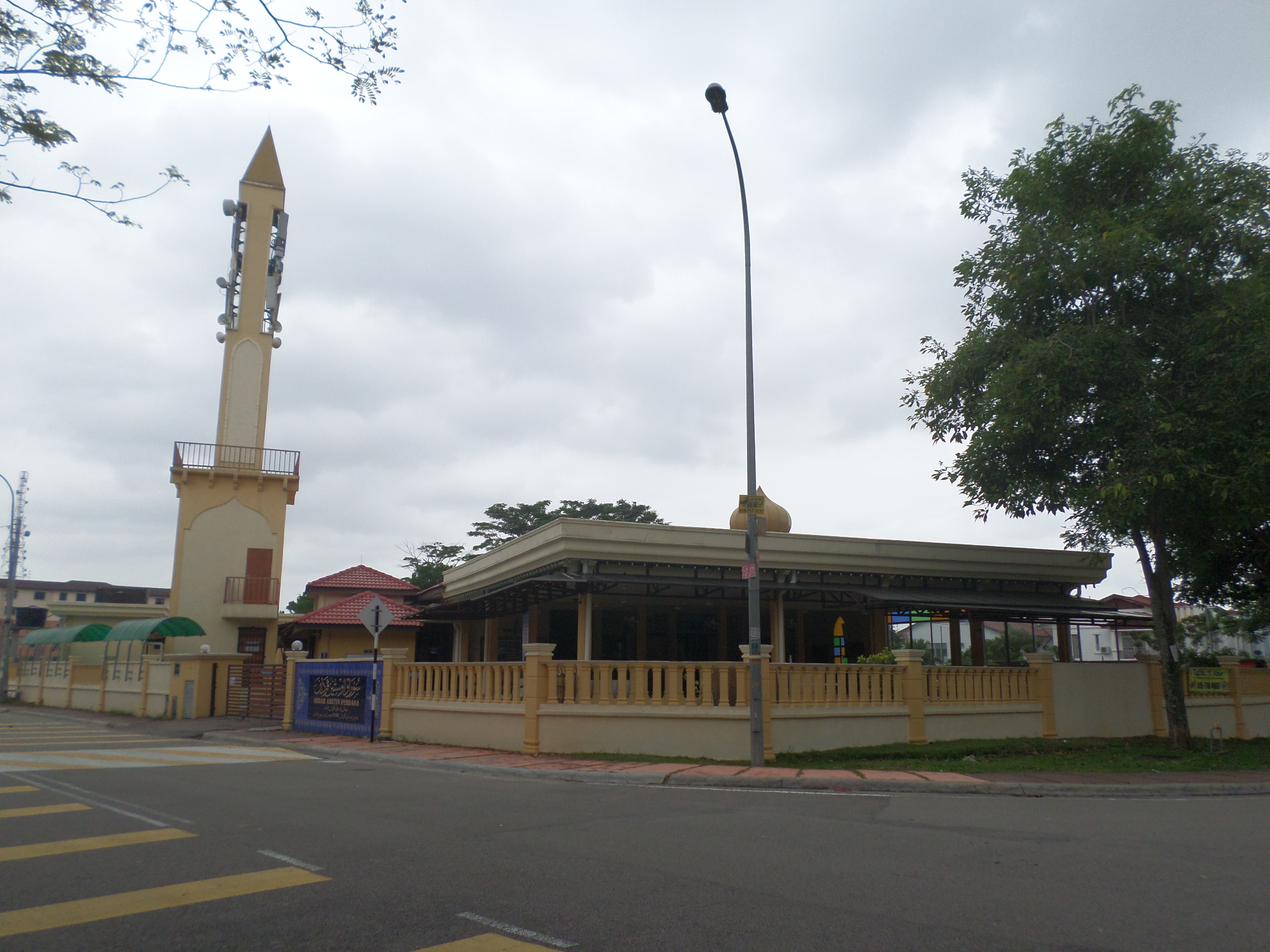 Austin Perdana Surau, Mount Austin, Johor Bahru, Johor, Malaysia